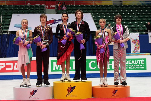 The ice dancing podium at the 2010-2011 Junior Grand Prix of Figure Skating Final. From left: Victoria Sinitsina / Ruslan Zhiganshin (2nd), Ksenia Monko / Kirill Khaliavin (1st), Alexandra Stepanova / Ivan Bukin (3rd).